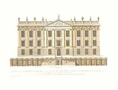 The west front of Chatsworth House in Derbyshire, England, from Colen Campbell's Vitruvius Britannicus.